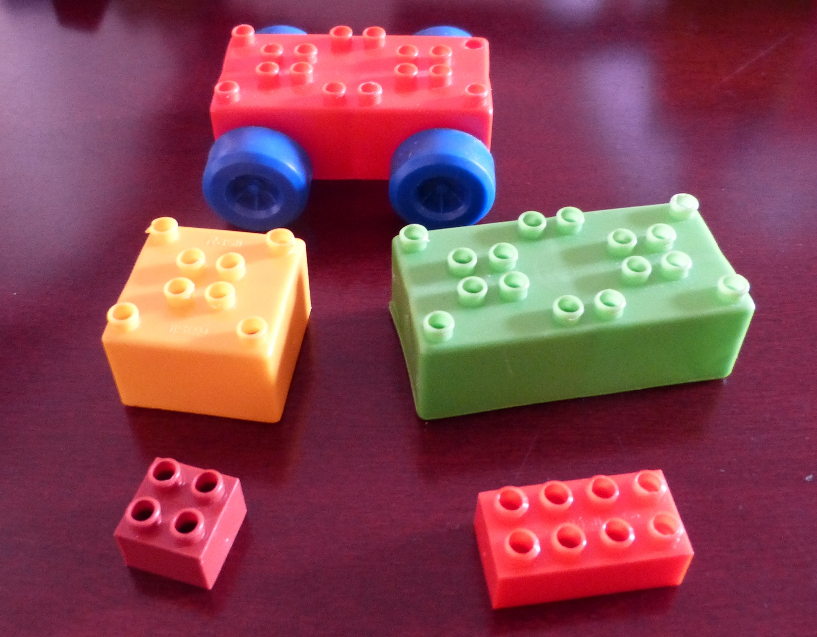 Rasti Junior construction system (Rasti pictured for comparison)